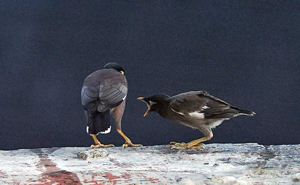 Common Myna Acridotheres tristis in Kolkata, West Bengal, India.